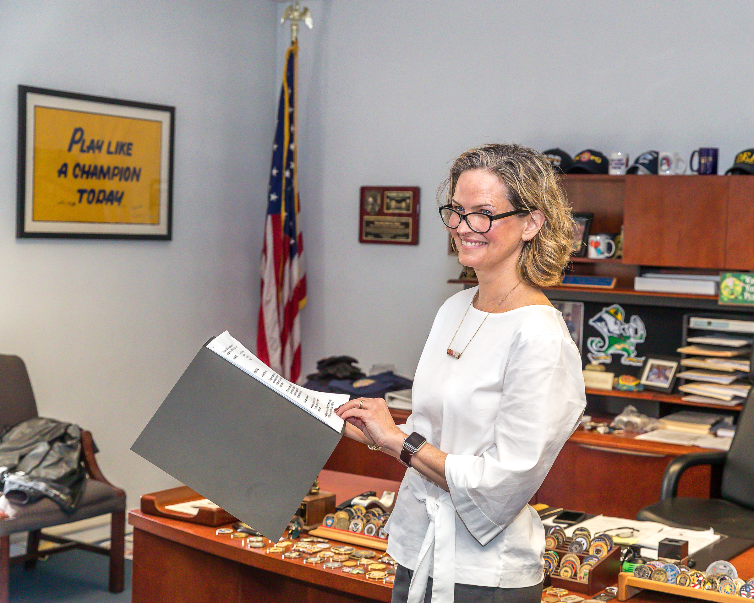 Nassau County Executive Laura Curran